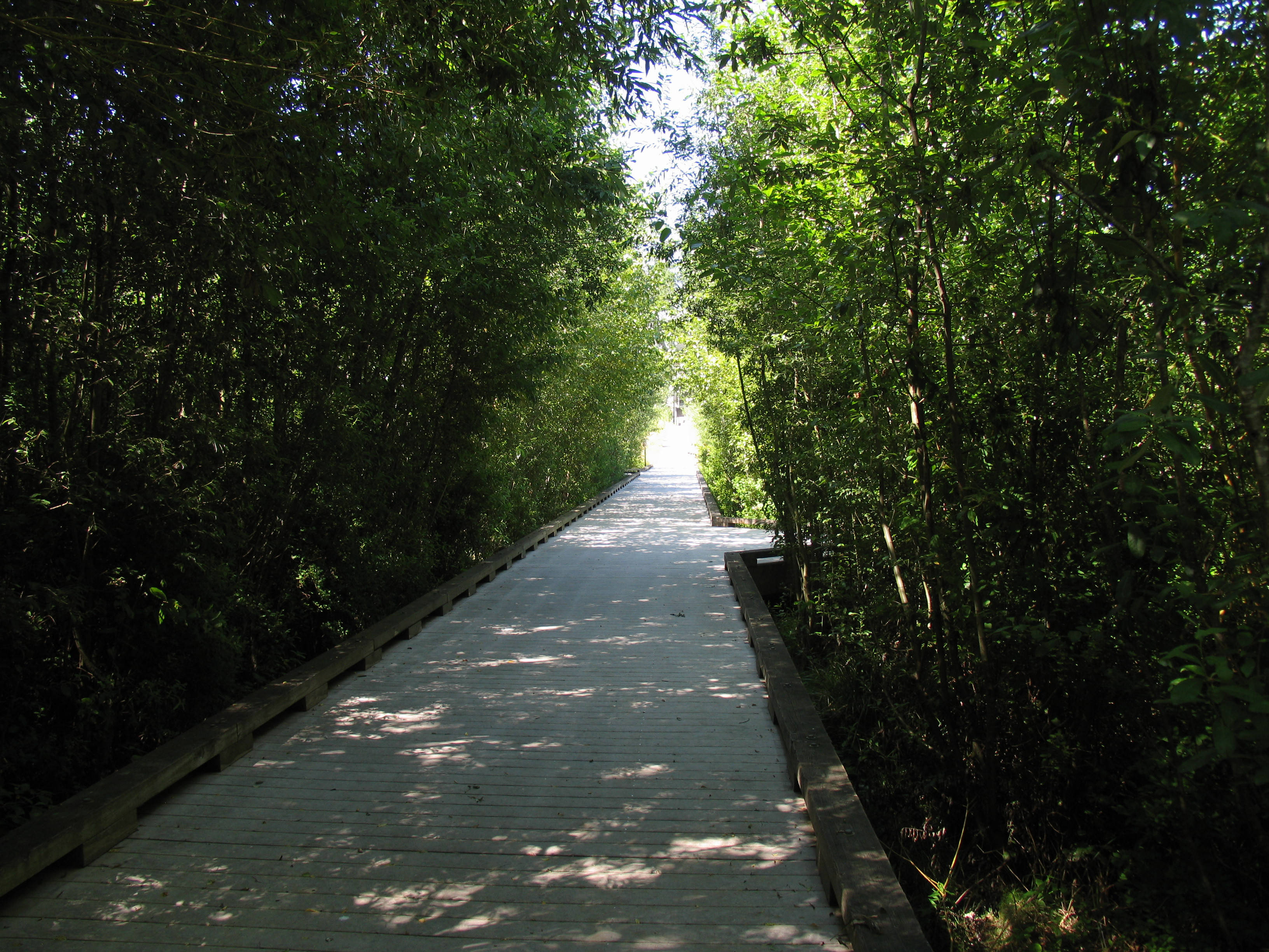 boardwald